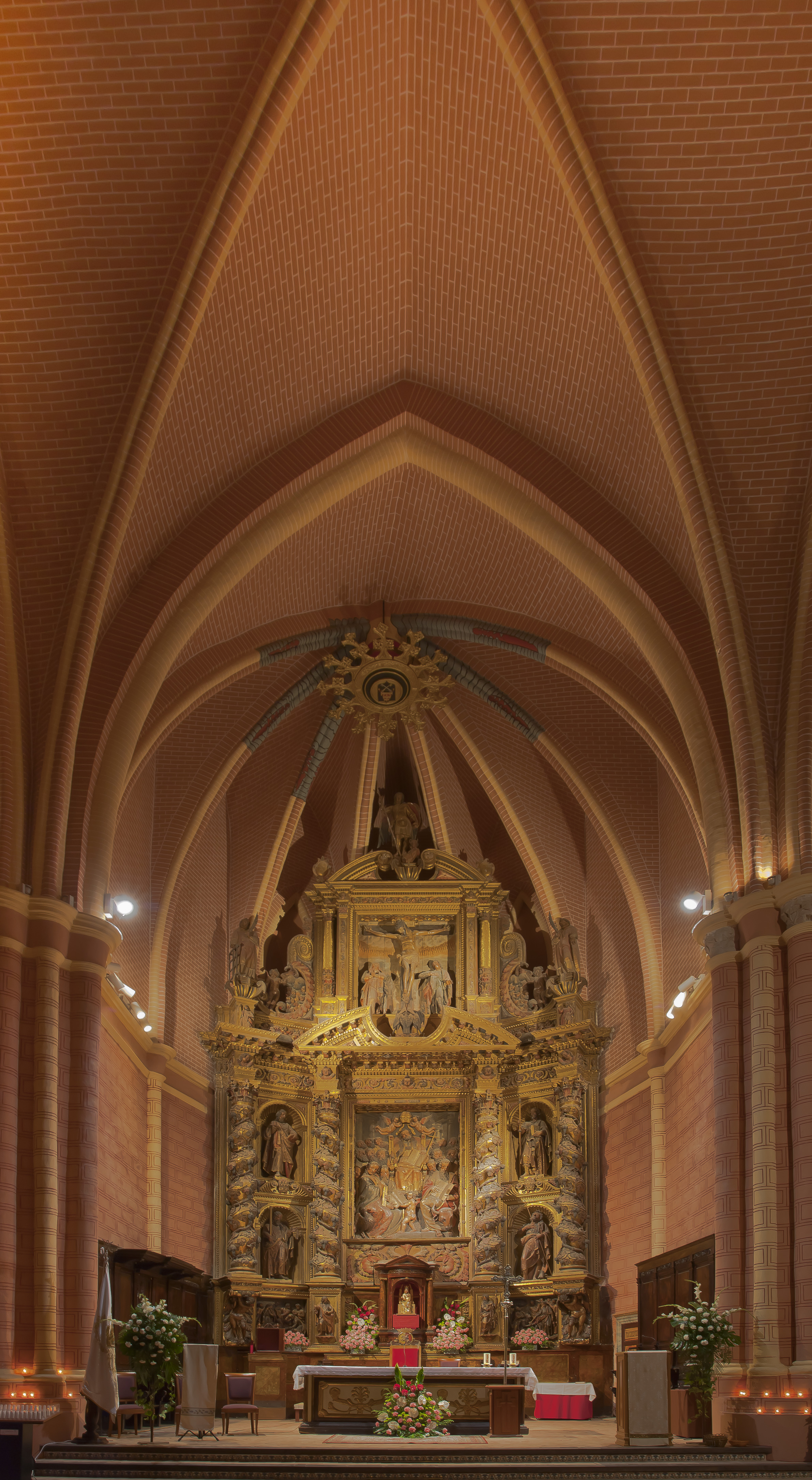 Church of San Pedro Los Francos, Calatayud, Spain